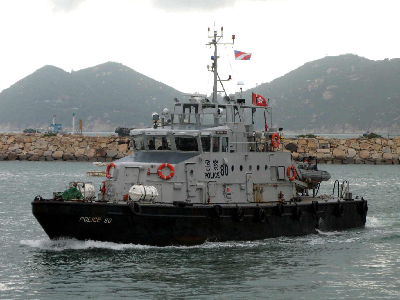 HK Police Department Ship No.80